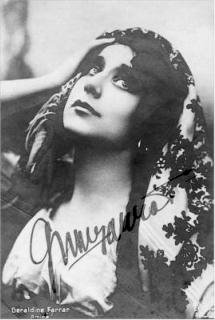 Autographed portrait card of Geraldine Farrar in the title role in Amica in the premiere production 1905.